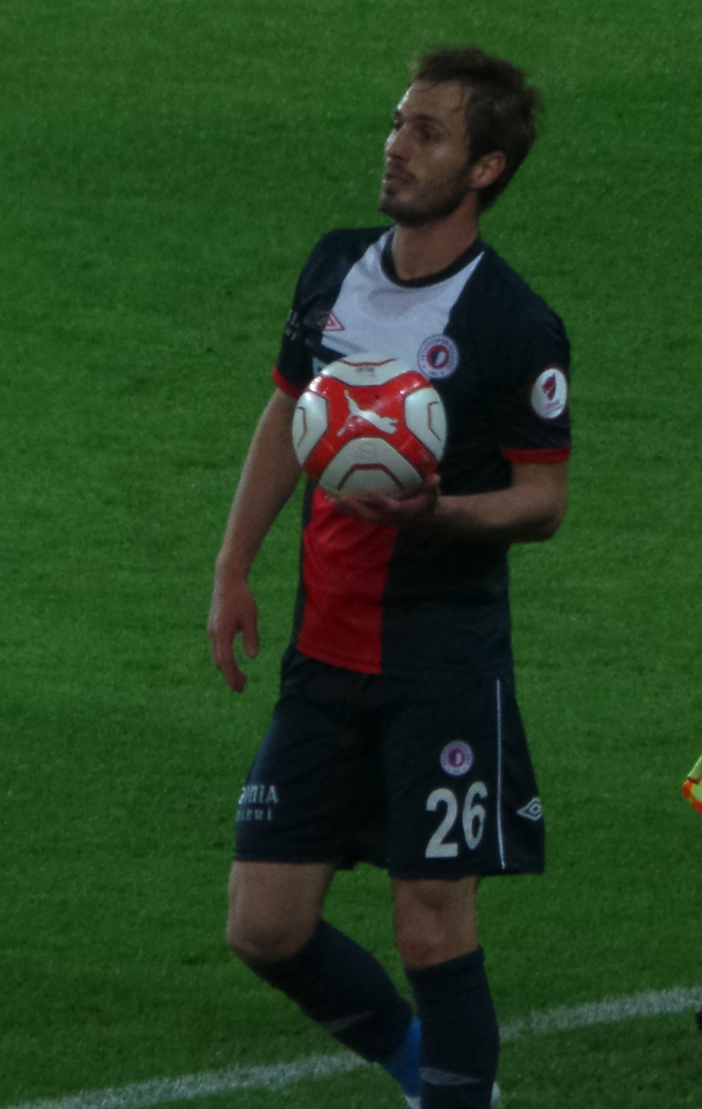 Gökhan Dincer